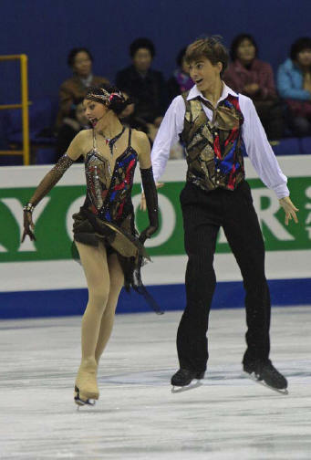 Ekaterina RIAZANOVA Jonathan GUERREIRO (RUS) Grand Prix Final 2008 – Juniors Dance. OD - Rhythms of the 1920s, 1930s, and 1940s